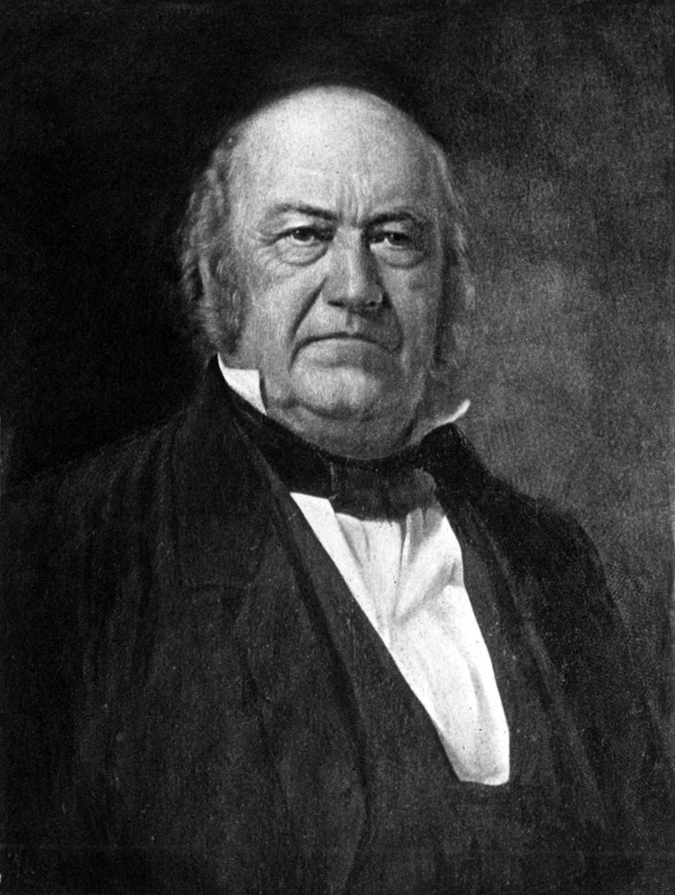 portrait of Thomas Ewing (1789-1871), first United States Secretary of the Interior; also Secretary of the Treasury and Senator from Ohio